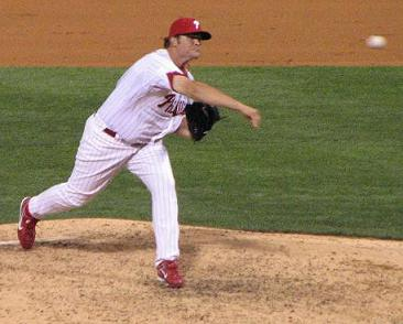 Andrew Carpenter throws the first pitch of his MLB Career on August 27th, 2008 against the New York Mets 09:48, 26 September 2008 . . Davidm8985 . . 366×294 (29 KB)